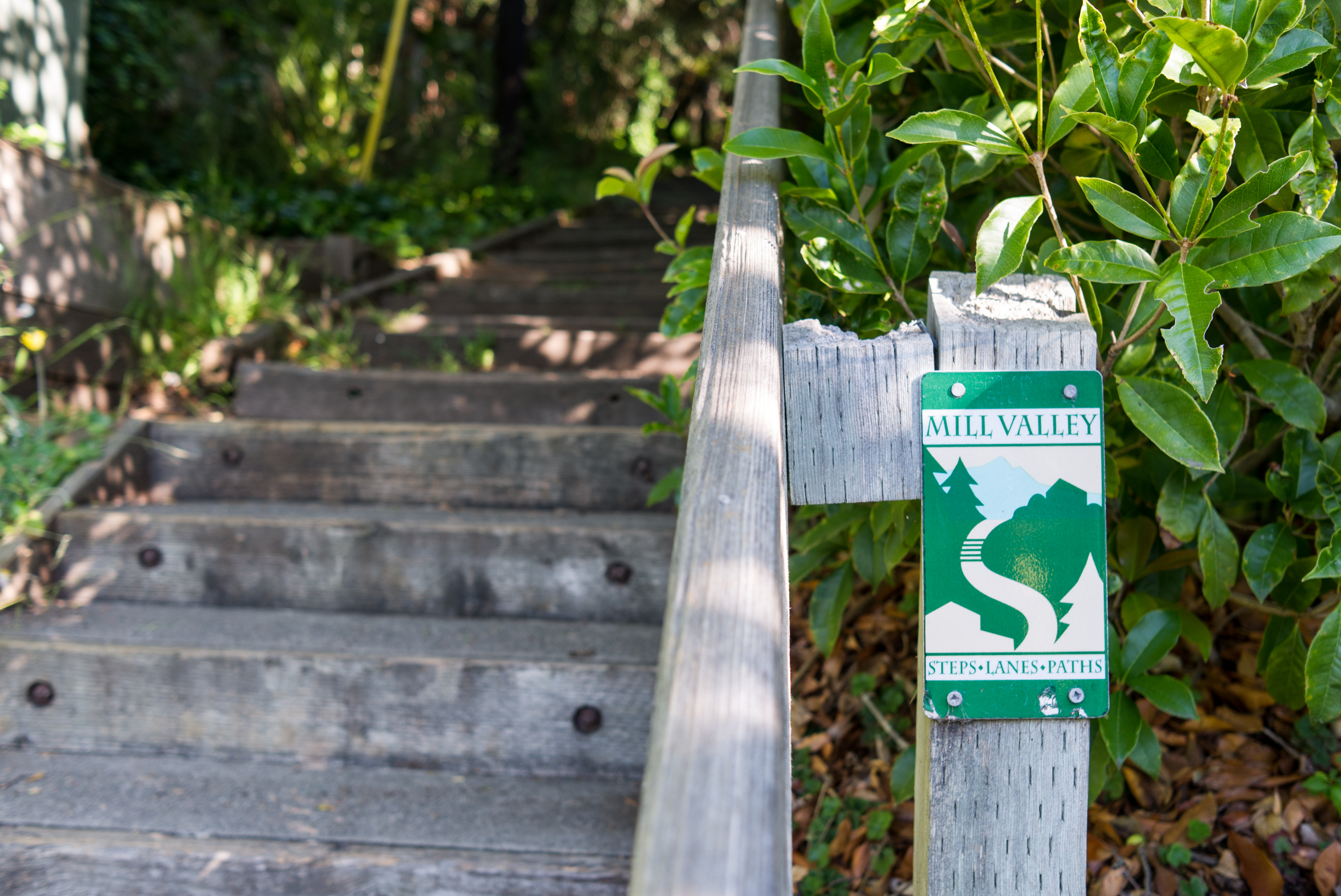 Mill Valley – Steps, lanes and paths, Bernard St.